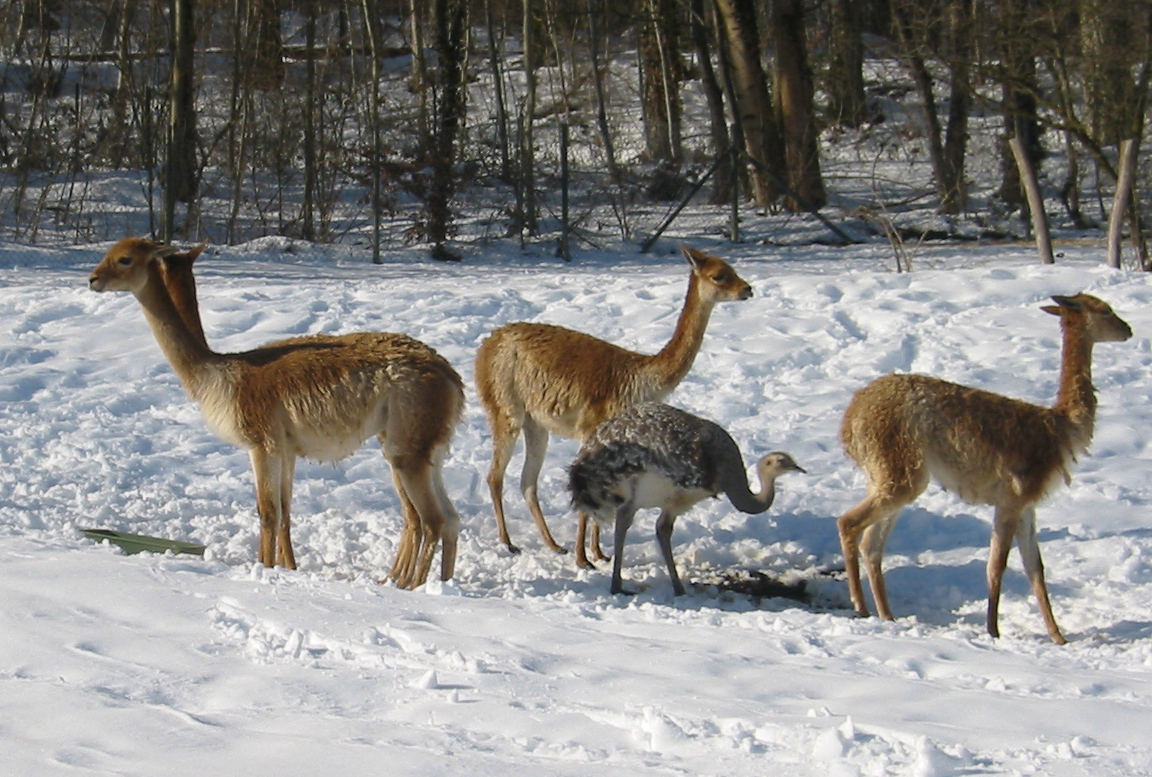 Vicuña (Vicugna vicugna) and a Darwin's rhea (Pterocnemia pennata) at Zoo Zurich